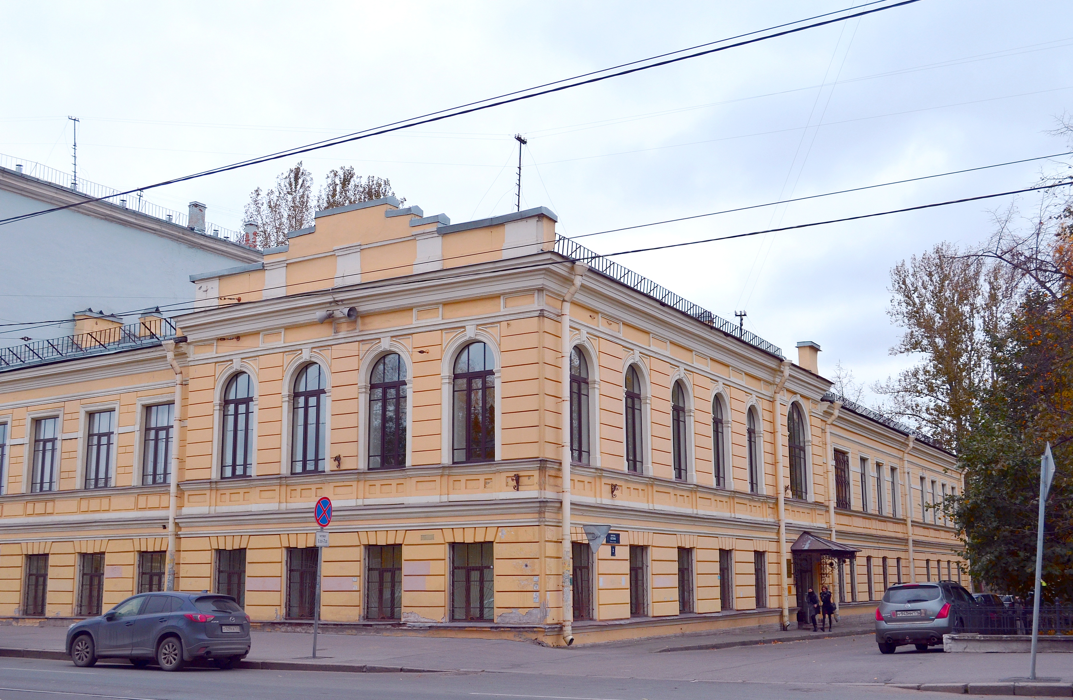 St. Petersburg. Obukhovskoy oborony prospekt, 85. Smolenskaya coupled Zemstvo school